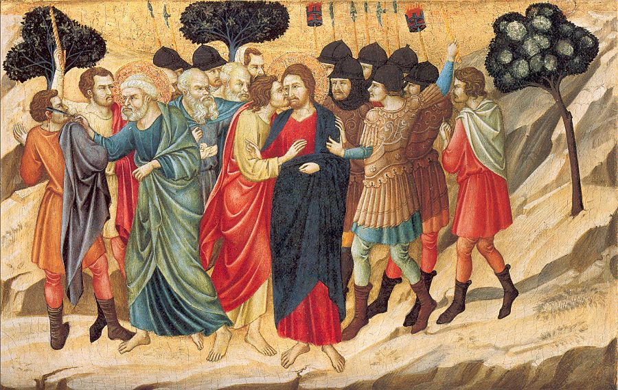 from the Santa Croce Altarpiece